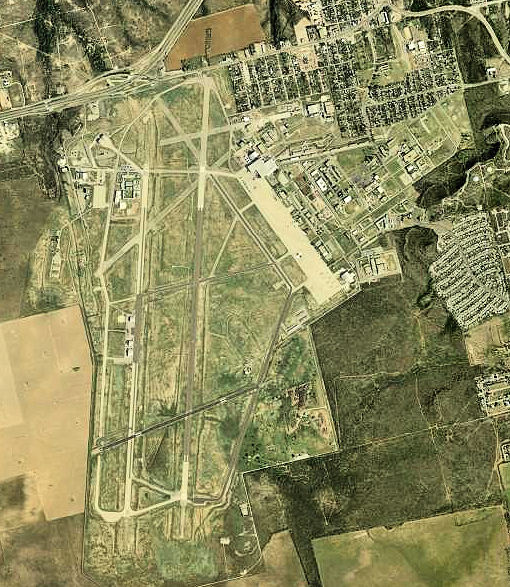 USGS digital orthophoto of Webb Air Force Base in Texas